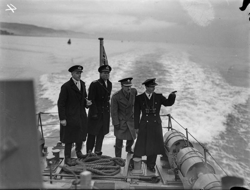 King Peter of Yugoslavia Visits the Clyde. 25 January 1943, Greenock, King Peter of Yugoslavia Toured the Clyde on Board a Motor Launch. HM King Peter of Yugoslavia on board a naval motor launch during a visit to the Clyde, with him are (L to R): Commander D Joel, RN, Paymaster Captain K B S Greig, RN, and Captain Lord Inverclyde.